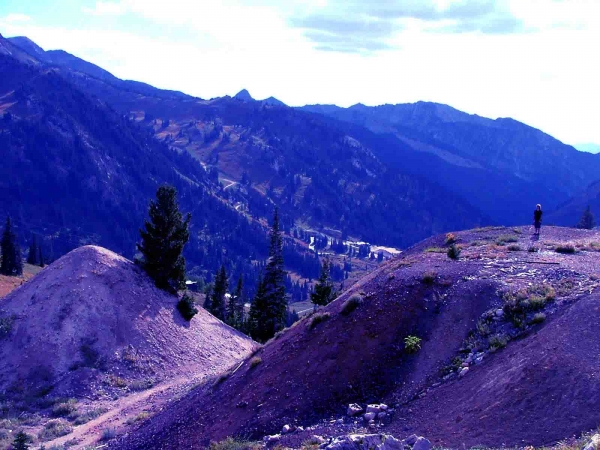 Chad's Gap in summer in Michigan City above Alta, Utah